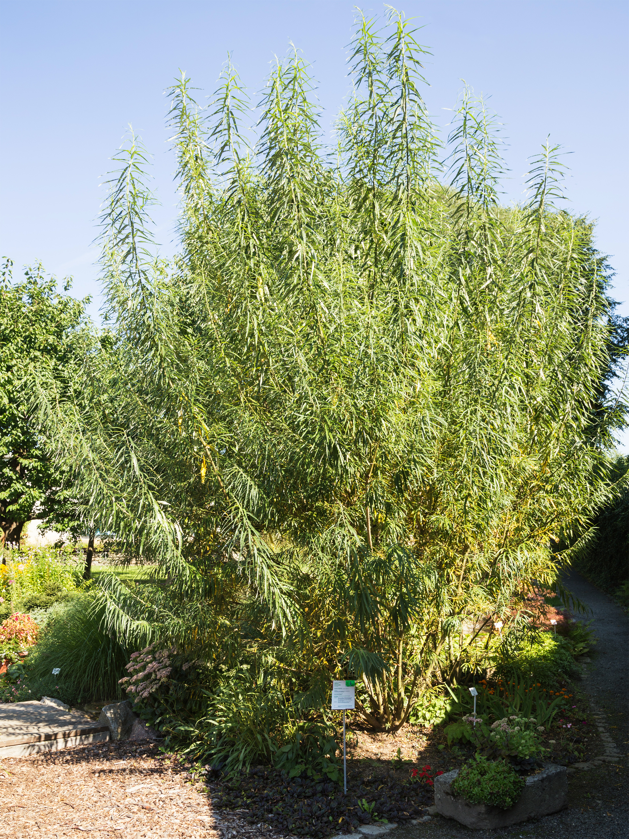 Basket willow (Salix viminalis), in the garden of the convent St. Marienstern, Panschwitz-Kuckau